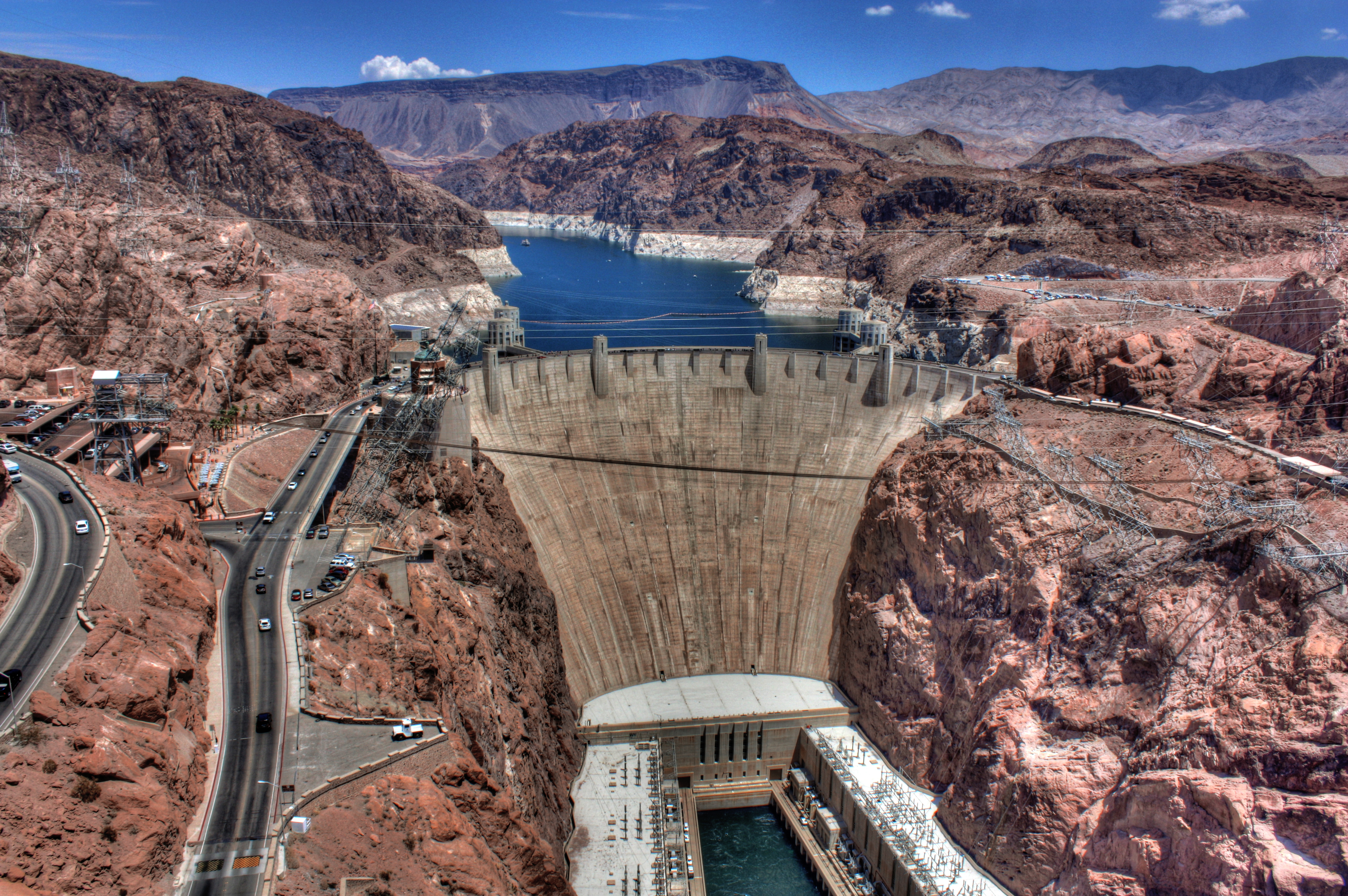 Hoover Dam, East of Las Vegas on U.S. Route 93 Boulder City